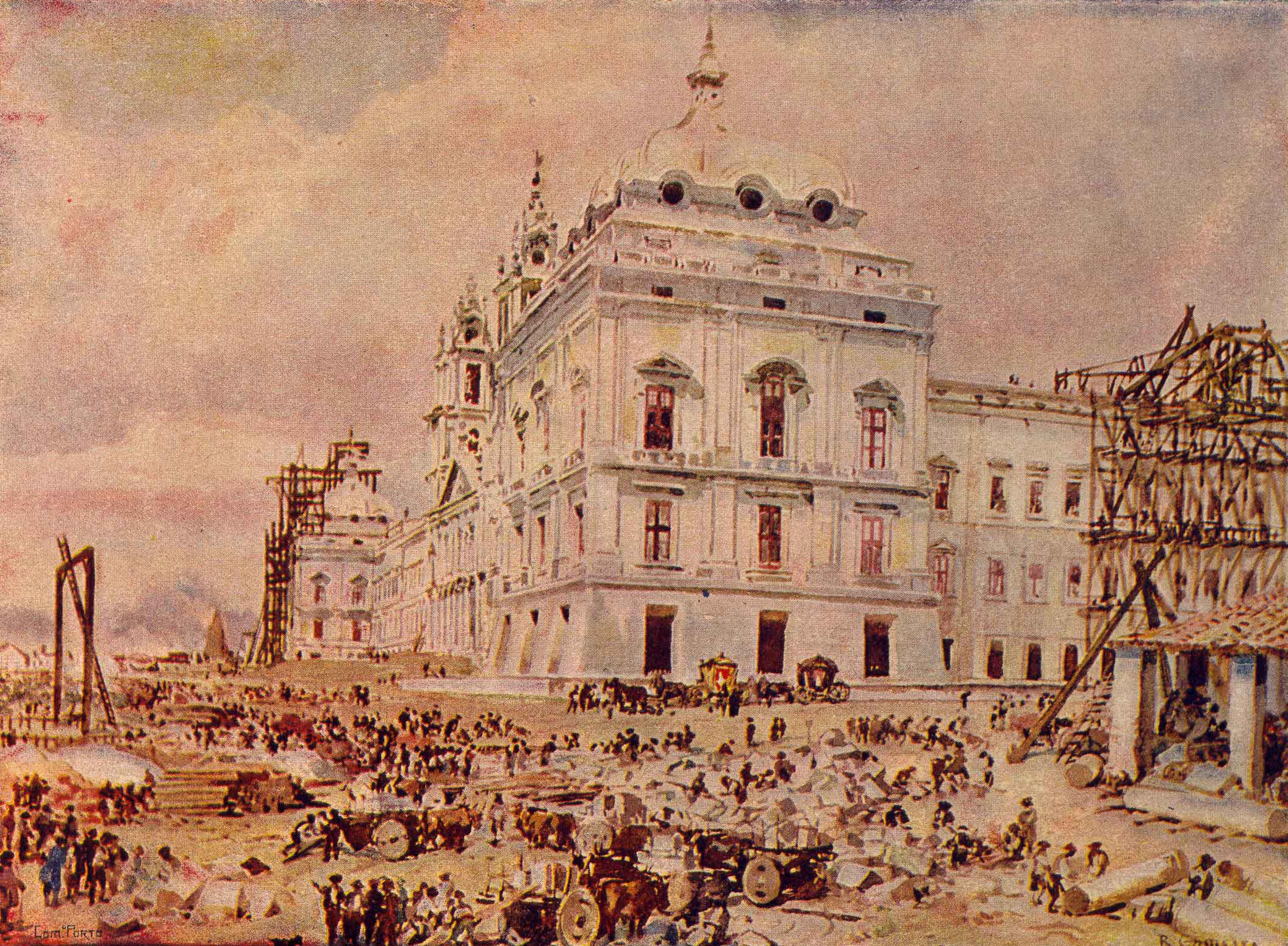 "The Convent of Mafra under construction", by Roque Gameiro, in Quadros da História de Portugal ("Pictures of the History of Portugal", 1917).